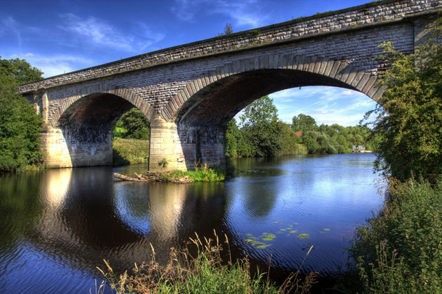 Old railway viaduct, Tadcaster Extract from Tadcaster historical information dated 1890: "About a quarter-of-a-mile above the road bridge is a handsome viaduct of eleven arches spanning the Wharfe. This was erected whilst George Hudson was the ruling spirit in the railway world, but with the collapse of the "Railway King" the line, which was intended to connect Tadcaster with York, was abandoned. The viaduct was subsequently purchased by the North-Eastern Railway Co." Later, it was used for a short siding to a mill on the east side of the river. (The North-Eastern railway's line from Tadcaster to Wetherby crossed the River Wharfe about 4 km northwest - see SE4445.)